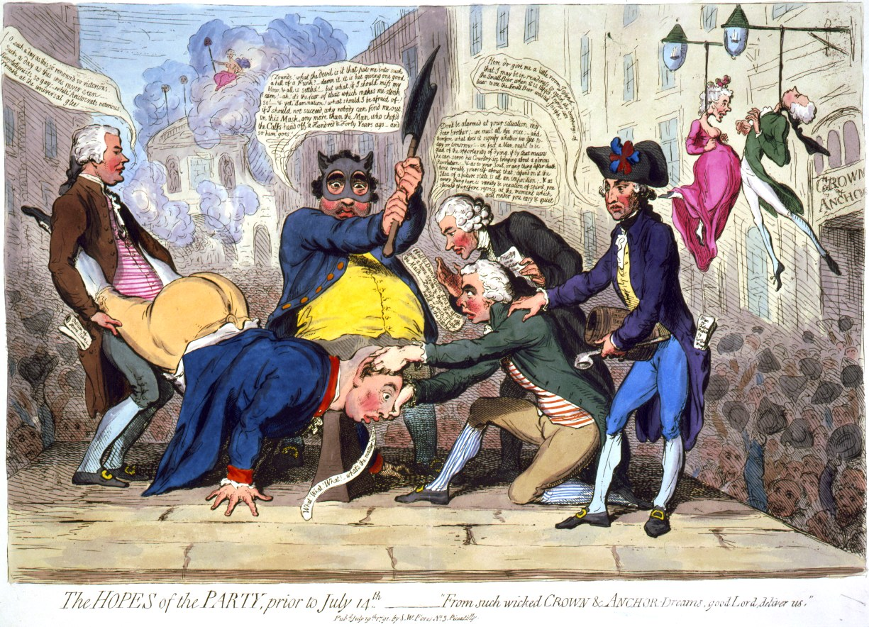 The Hopes of the Party, prior to July 14th. —"From such wicked Crown & Anchor-Dreams, good Lord deliver us." SUMMARY: Satire on the dinner at the Crown and Anchor tavern and on the radicals who extolled the French Revolution. Charles James Fox raises an axe to strike the neck of George III, whose head is held by Sheridan, and legs by John Horne Tooke. Priestley and Sir Cecil Wray stand behind Sheridan. MEDIUM: 1 print : etching, hand-colored. CREATED/PUBLISHED: [London] : Pubd. by S.W. Fores, 1791 July 19th. According to Wright & Evans, Historical and Descriptive Account of the Caricatures of James Gillray (1851, OCLC 59510372), p. 35, "On the supposed design of the party headed by Fox and Sheridan to enlist the people of England in the same revolutionary cause which now flourished in France. The Crown and Anchor Tavern, in the Strand, was the grand place of meeting of the Revolution Society. Lord Stanhope, who rendered himself remarkable by his strong democratic principles, was supposed at this moment to be hesitating in the part he was to take in politics. Lord Stanhope married Lady Hester Pitt, daughter of the first Lord Chatham, and sister to William Pitt, the Minister."